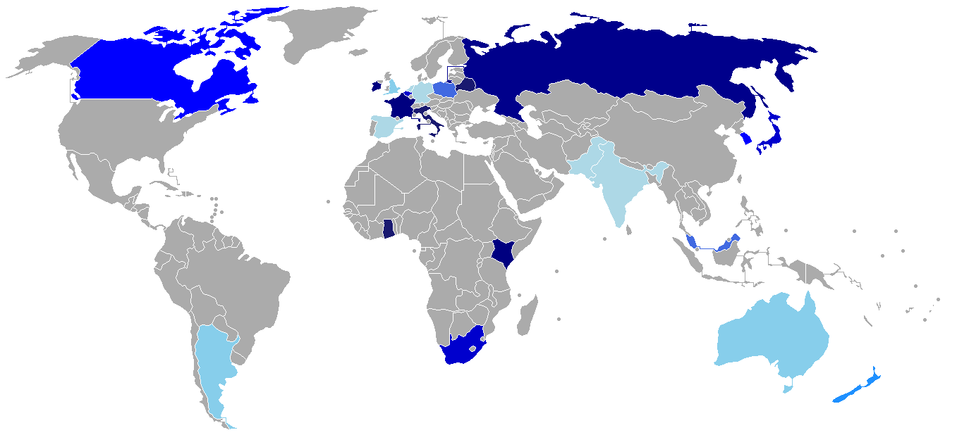 Hockey World Cup, historical participating teams